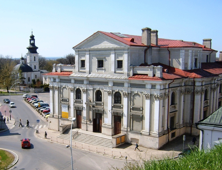 Churches of Franciscians and St. Nicholas (on left) in The Old Town in Zamość, Poland